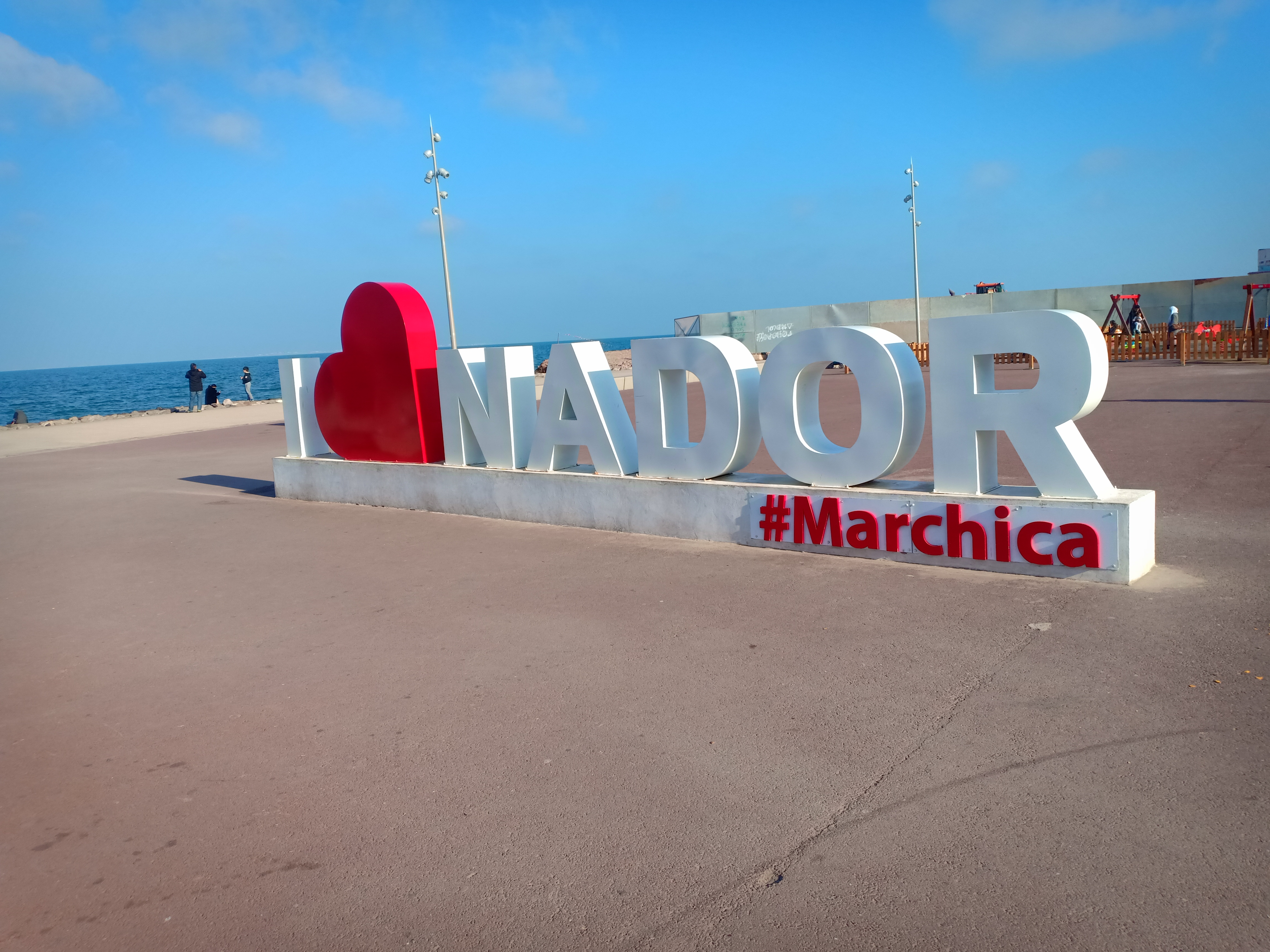 This is an image with the theme "Play" from: Morocco